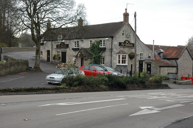 The Air Balloon The Air Balloon is situated on a roundabout on the A417 at the top of Crickley Hill.